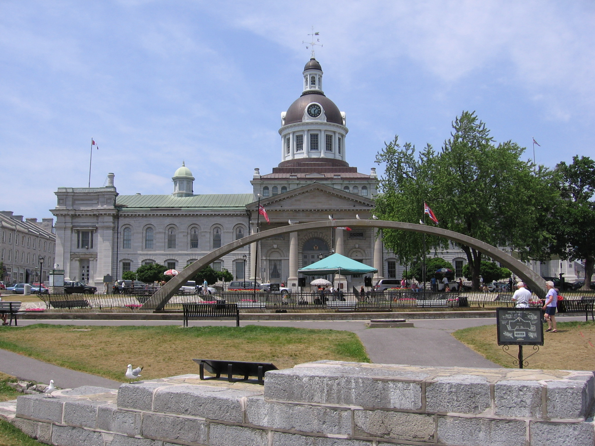 City Hall in Kingston, Ontario, Canada. Taken with a Canon PowerShot A510.